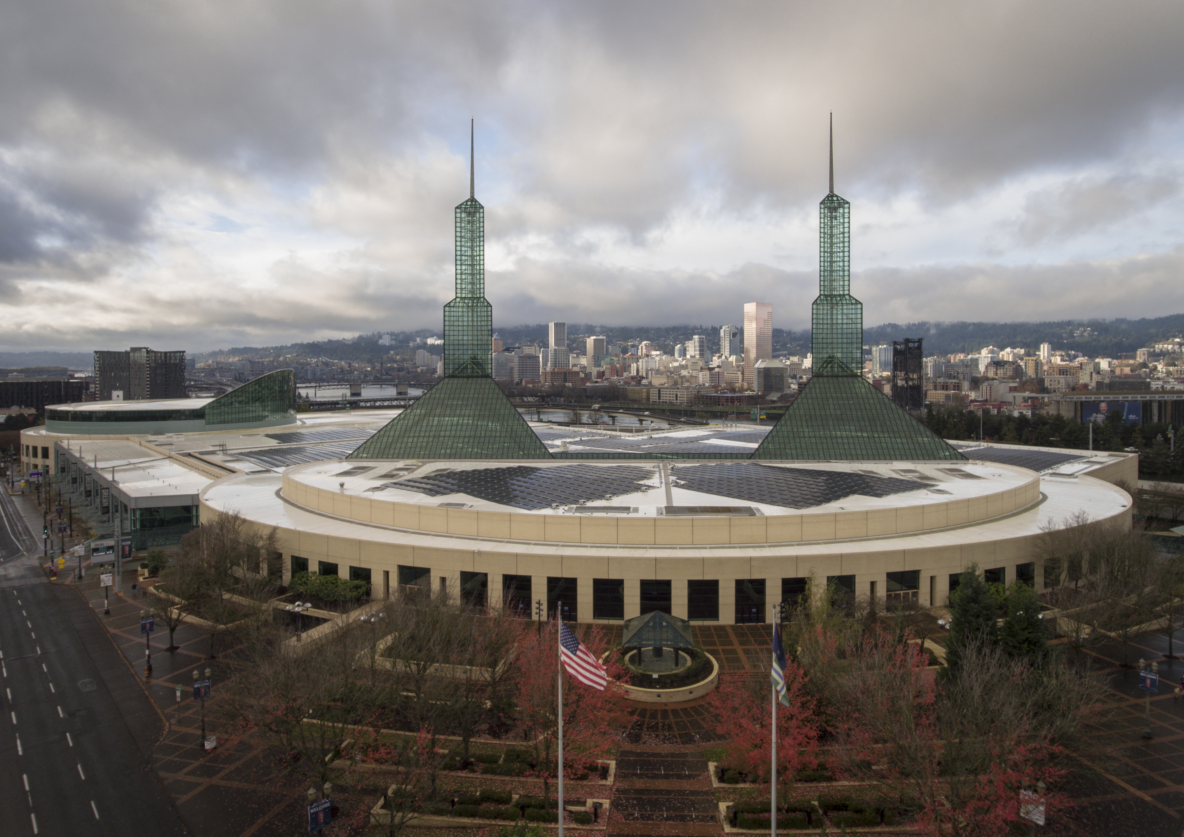 Oregon Convention Center, Portland, Oregon, USA. Photo by Jeremy Jeziorski.